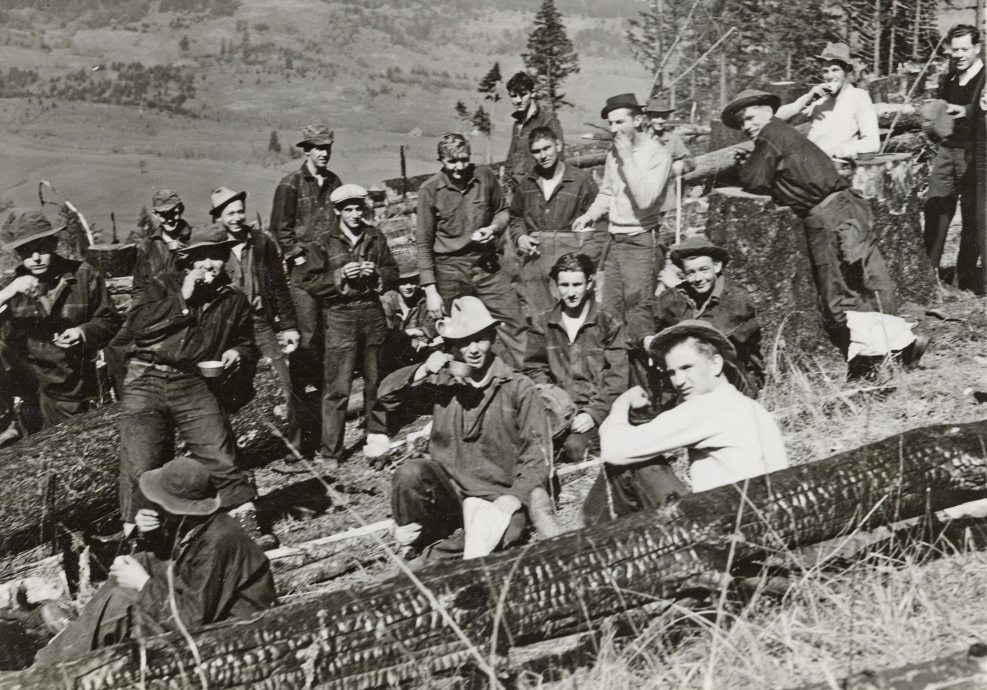 Original Collection: Harriet's Collection Item Number: HC1008 You can find this image by searching for the item number by clicking Want more? You can find more We're happy for you to share this digital image within the spirit of The Commons; however, certain restrictions on high quality reproductions of the original physical version may apply. To read more about what “no known restrictions” means, please visit the or contact staff at the OSU Special Collections & Archives Research Center for details.